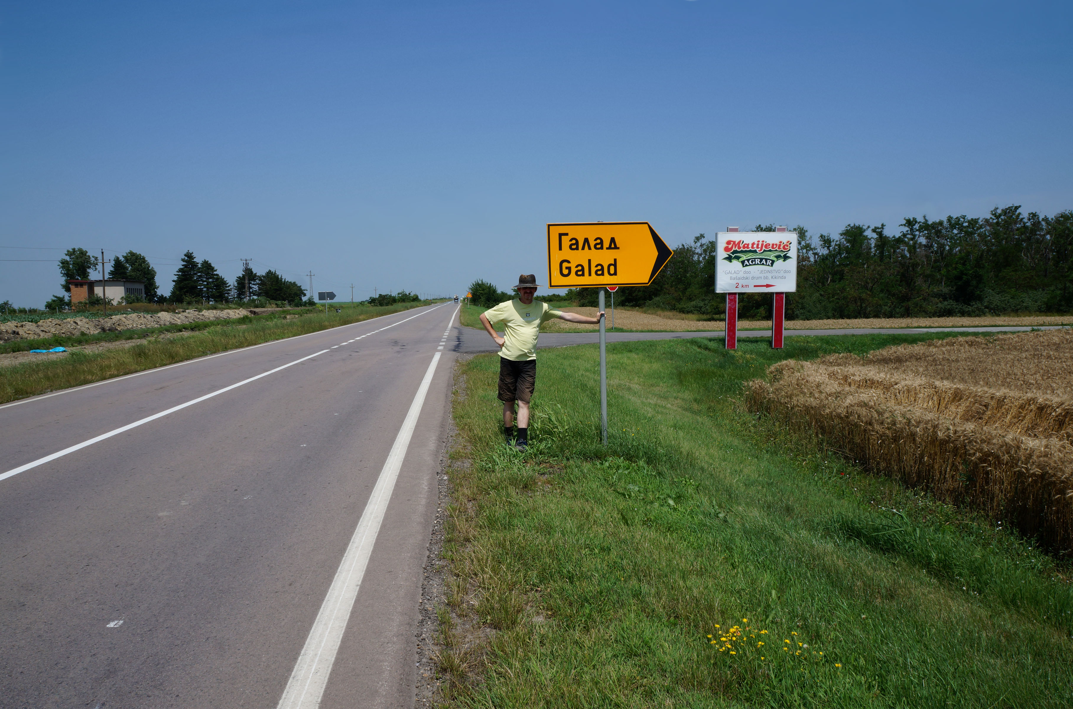 Village Galad, sign post